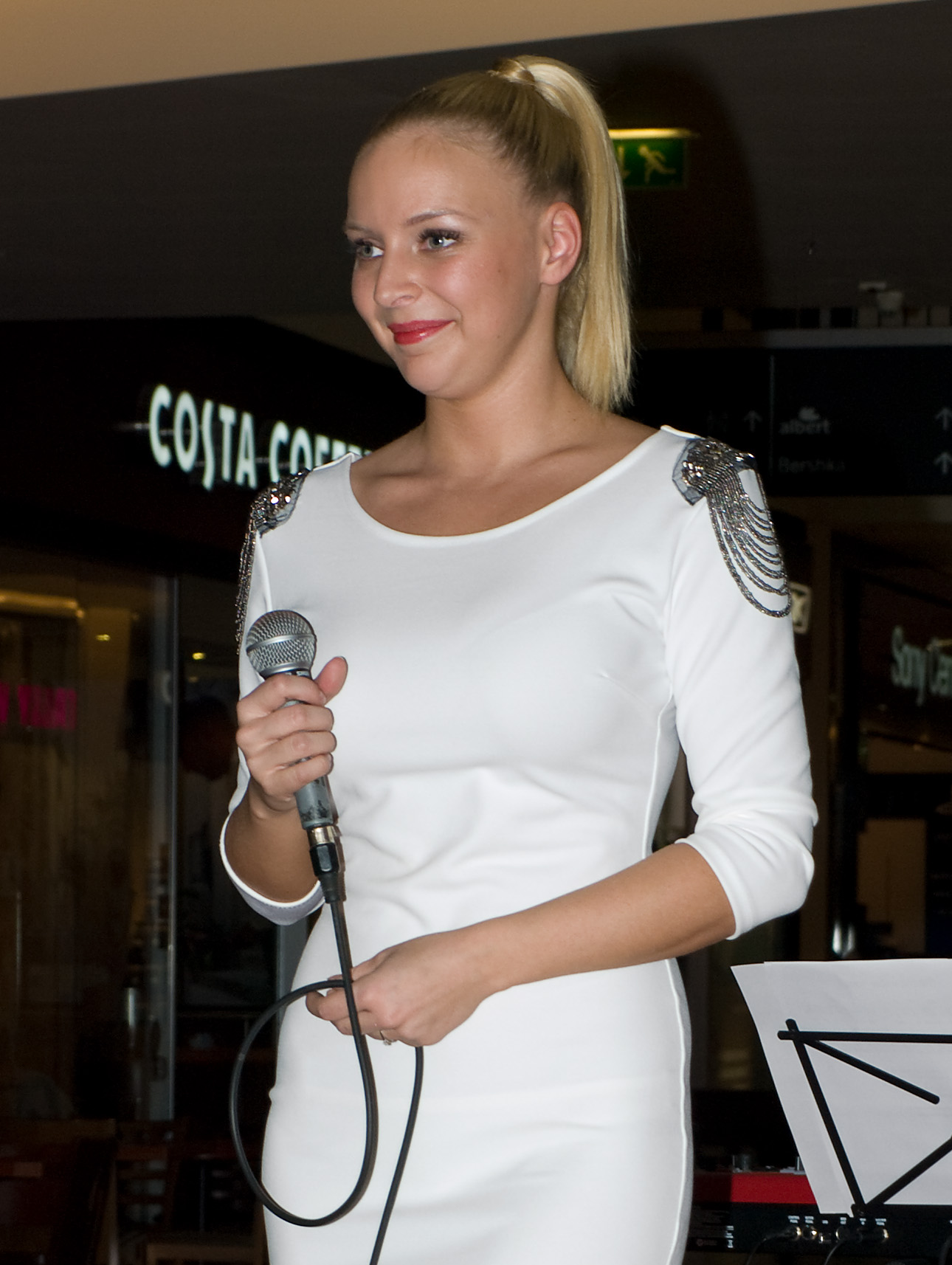 Czech singer Markéta Konvičková in Centrum Chodov